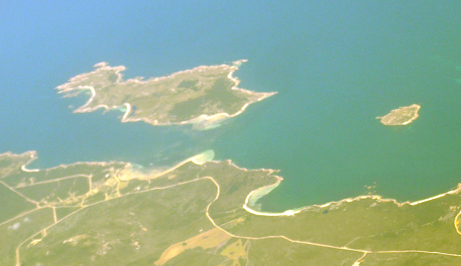 Long Island Tasmania just north of Cape Barren Island, with Doughboy Island on the right. Aerial view from south east